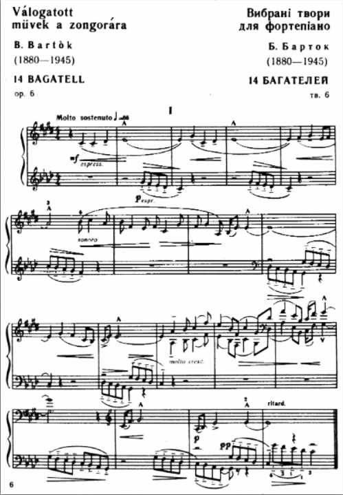 The 14 Bagatelles for solo piano by Béla Bartók were composed in 1908 and published in 1909.